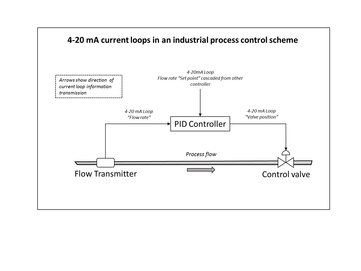 Example of 4-20mA current loops as used in industrial control schemes.